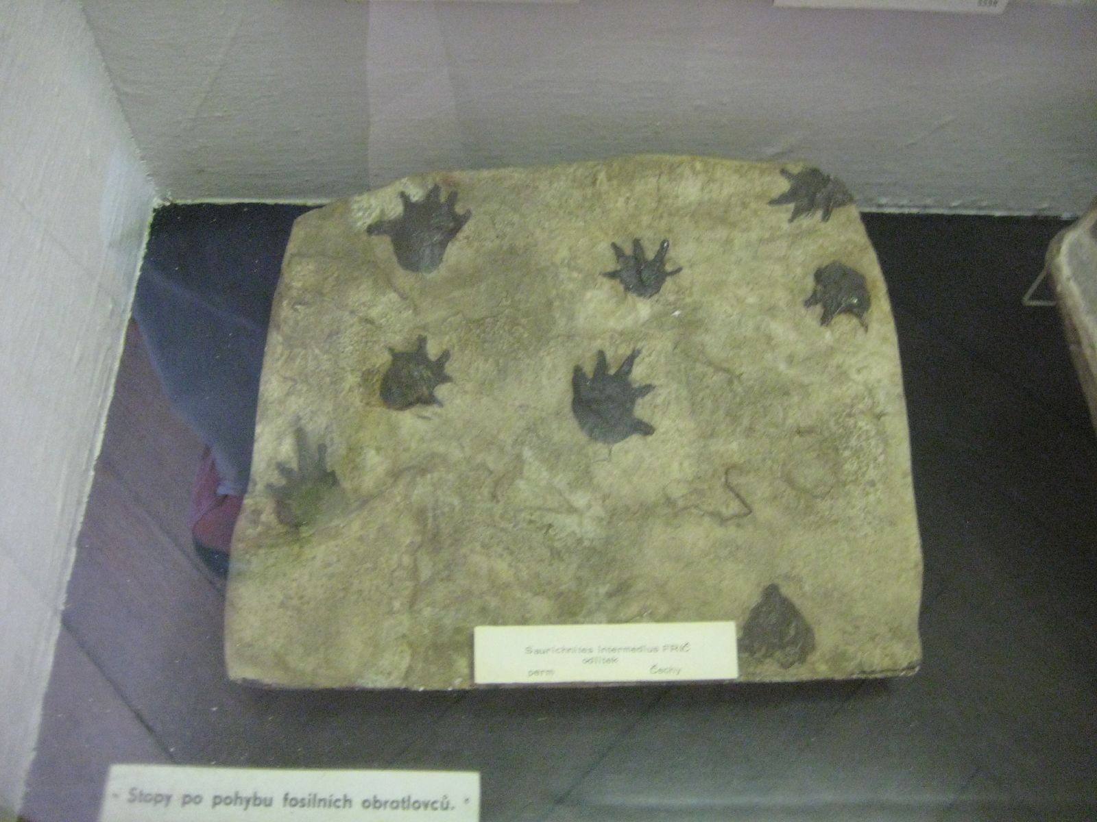 Foot prints!